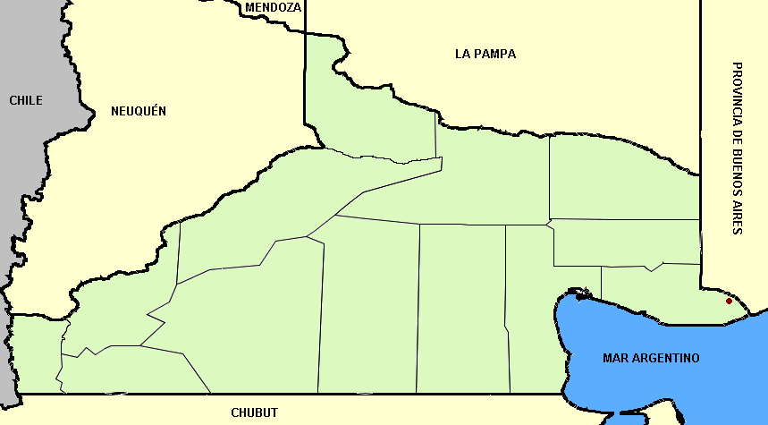 It shows administrative boundaries of Río Negro province in Argentina, its departments and its capital (Viedma).